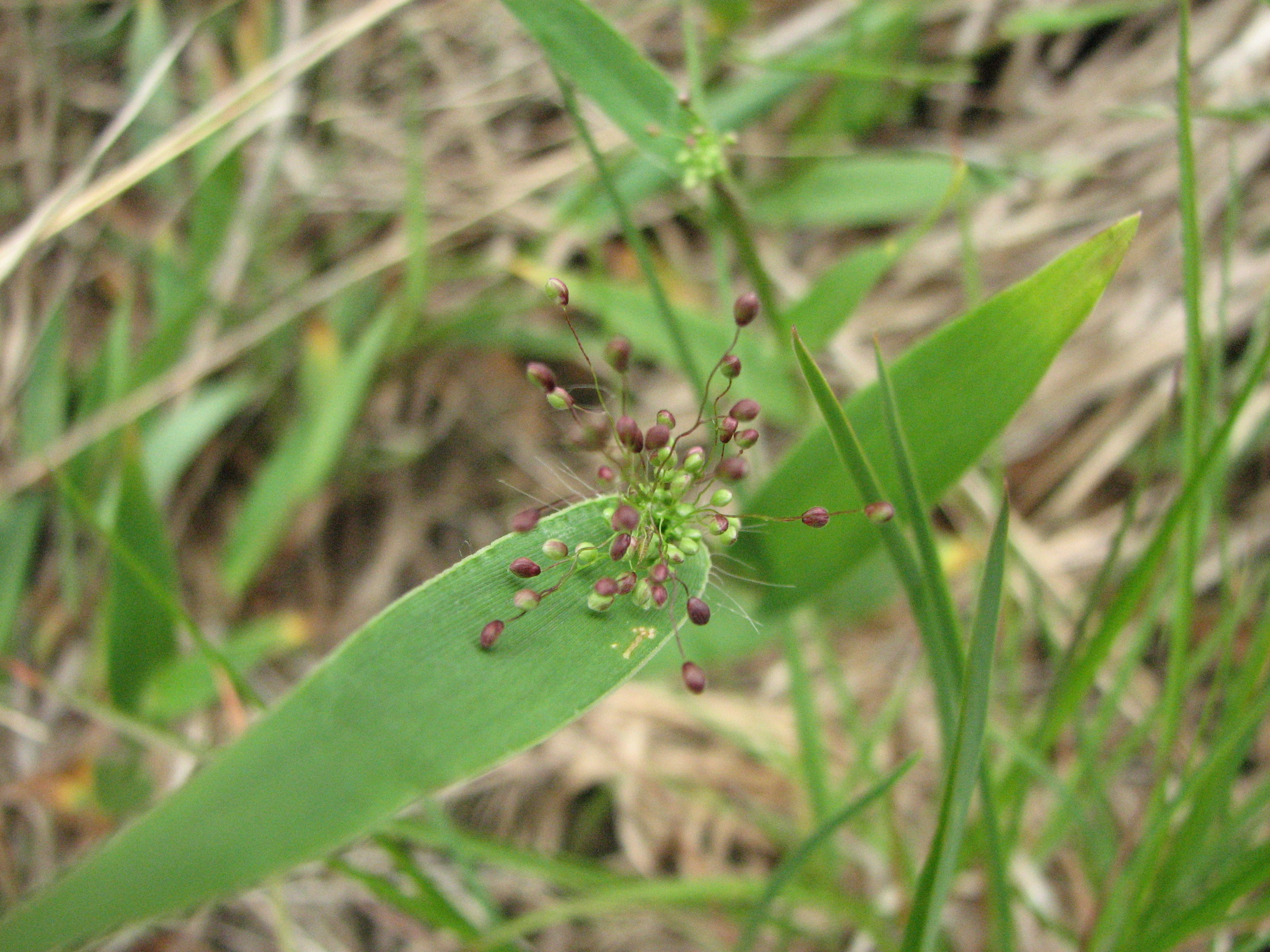 Dichanthelium sphaerocarpon growing on serpentine barrens, Nottingham County Park, Nottingham, Pennsylvania. Identified by Roger E. Latham.